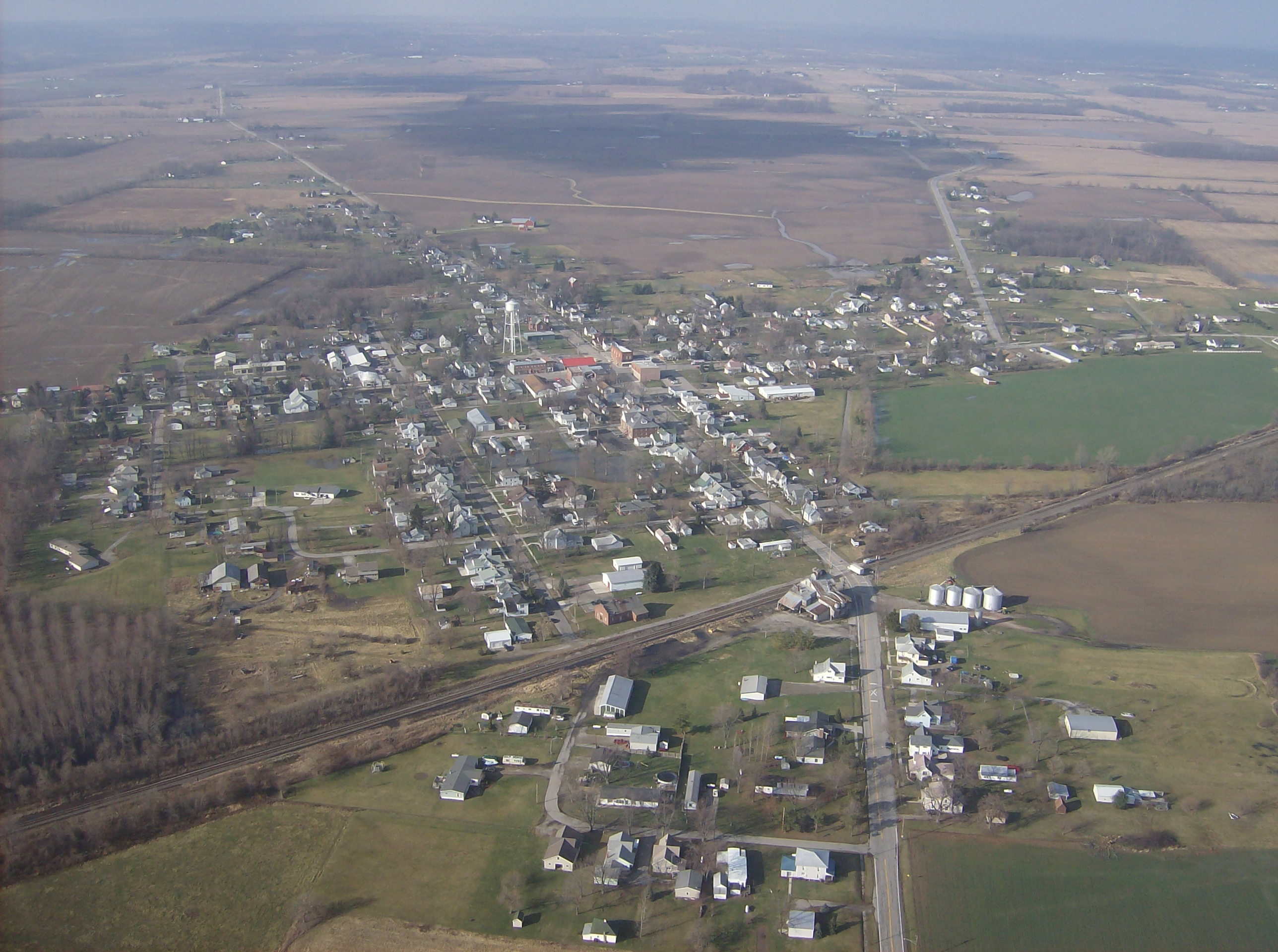 Aerial view of West Mansfield, Ohio, United States, taken from Diamond Eclipse light airplane. Picture taken from an altitude of 2,000 feet MSL at an bearing of approximately 284º.